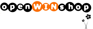 Logo of project